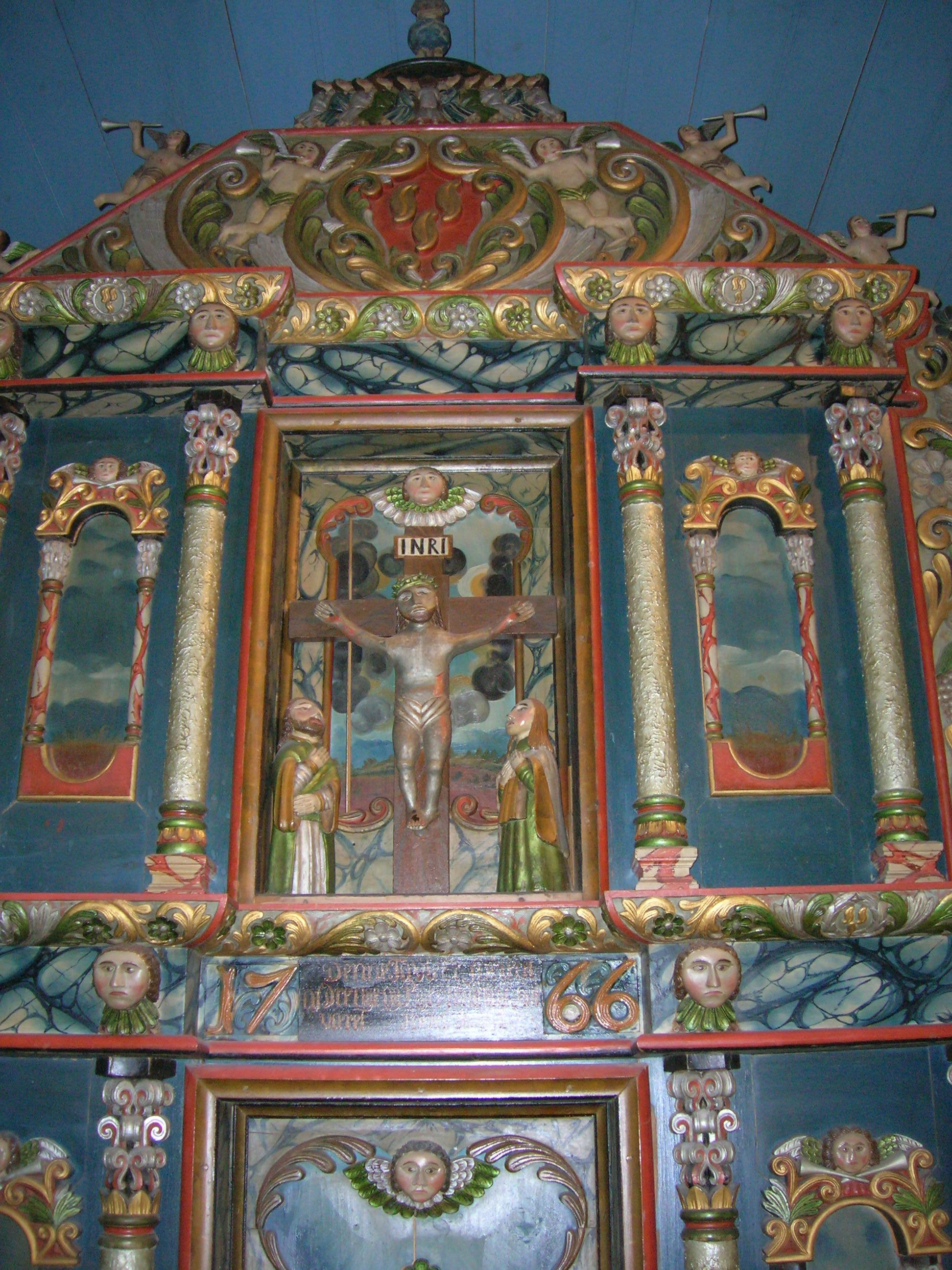 Detail on the altarpiece from 1765 in Mo church, Mo i Rana, Rana municipality, Norway. Photo on June 4, 2008 with a Nikon Coolpix 5600 5,1 Megapixel camera.